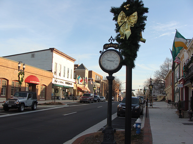 Bel Air's Main Street, Winter 2008